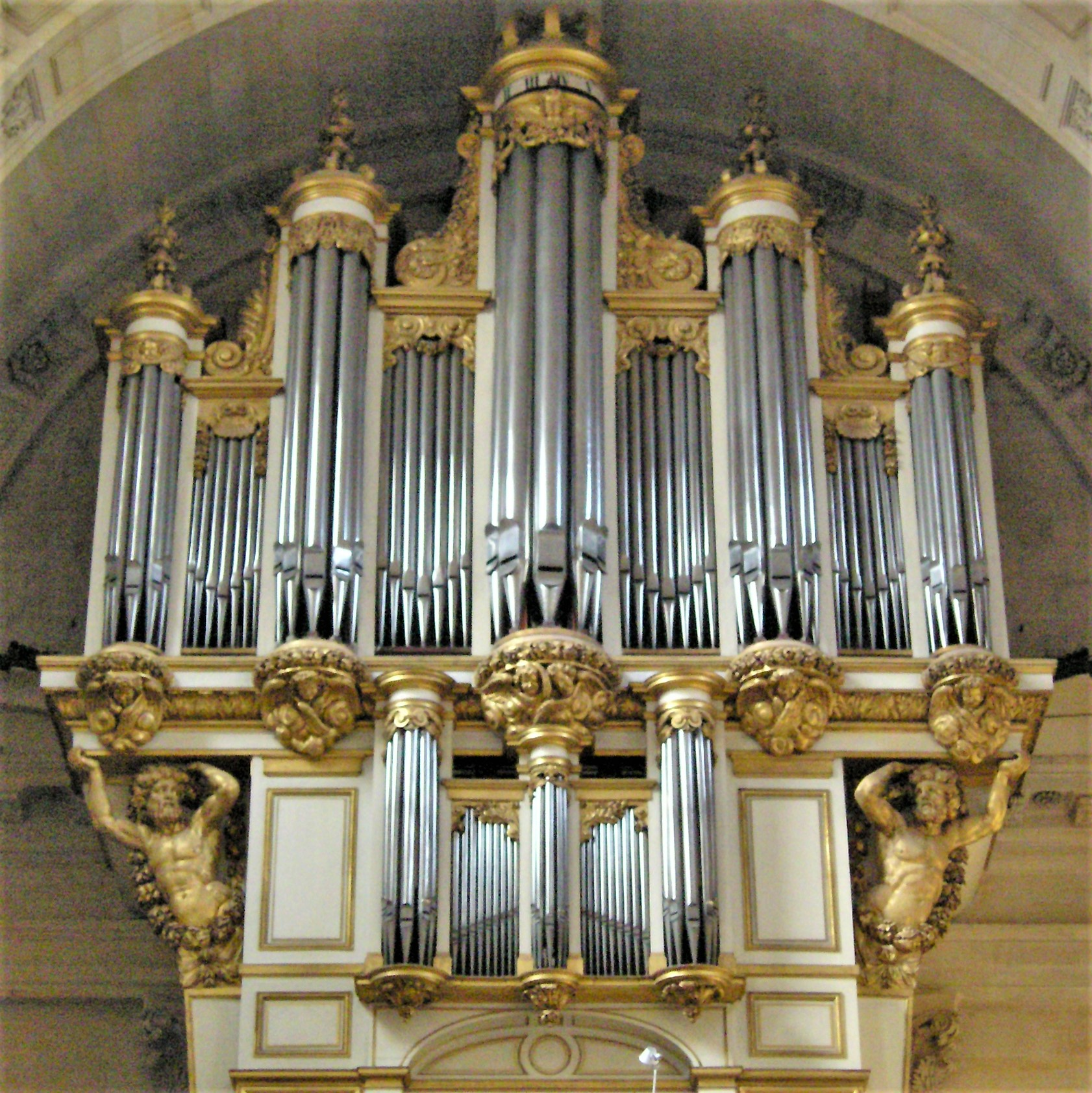 Saint-Louis-des-Invalides gold organ; Paris, France